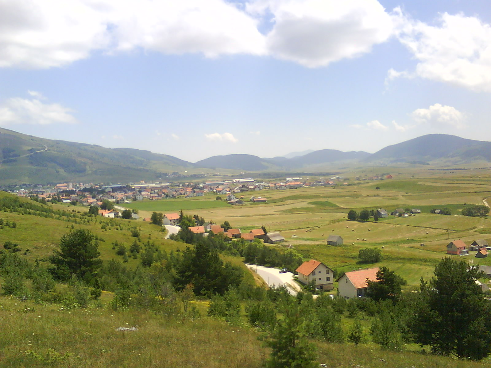 Kupres polje, Bosnia and Herzegovina